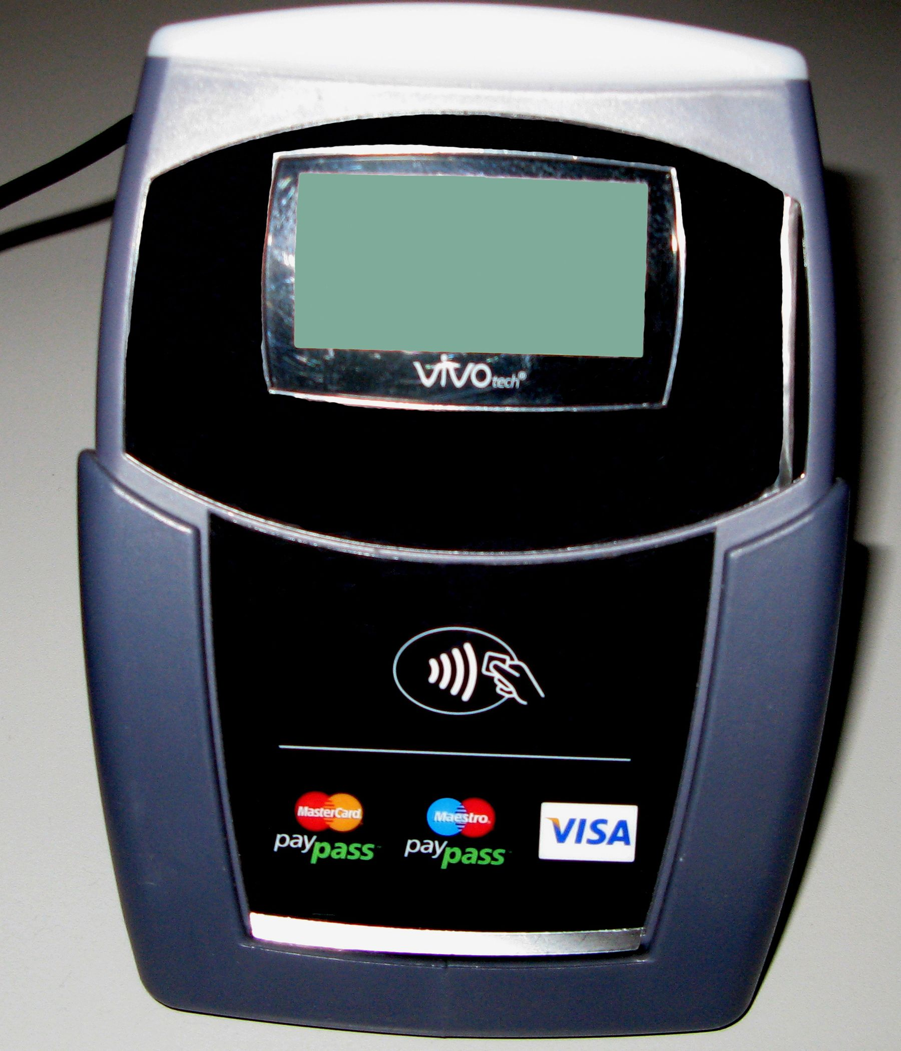 PayPass POS terminal